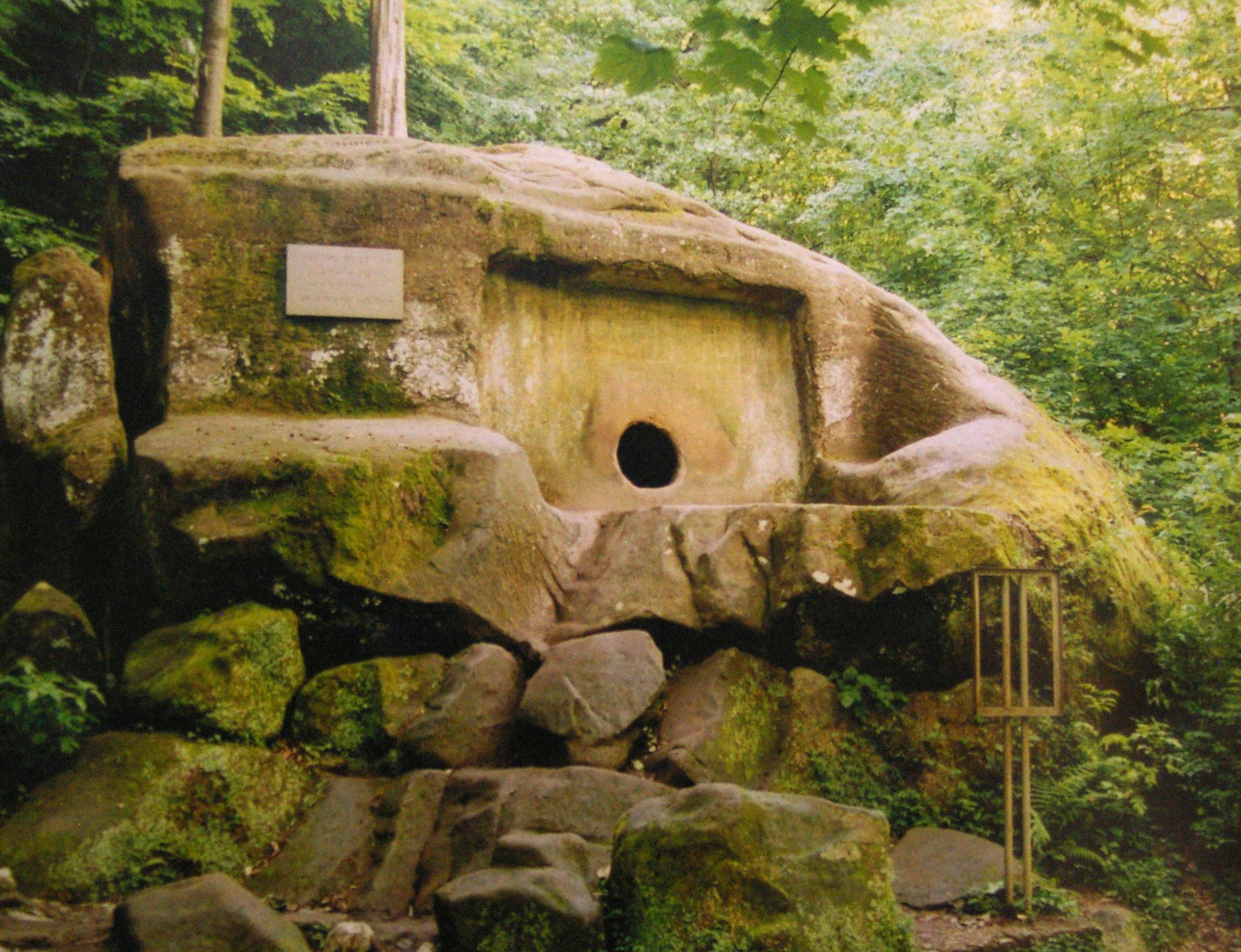 A dolmen near Sochi, Russia